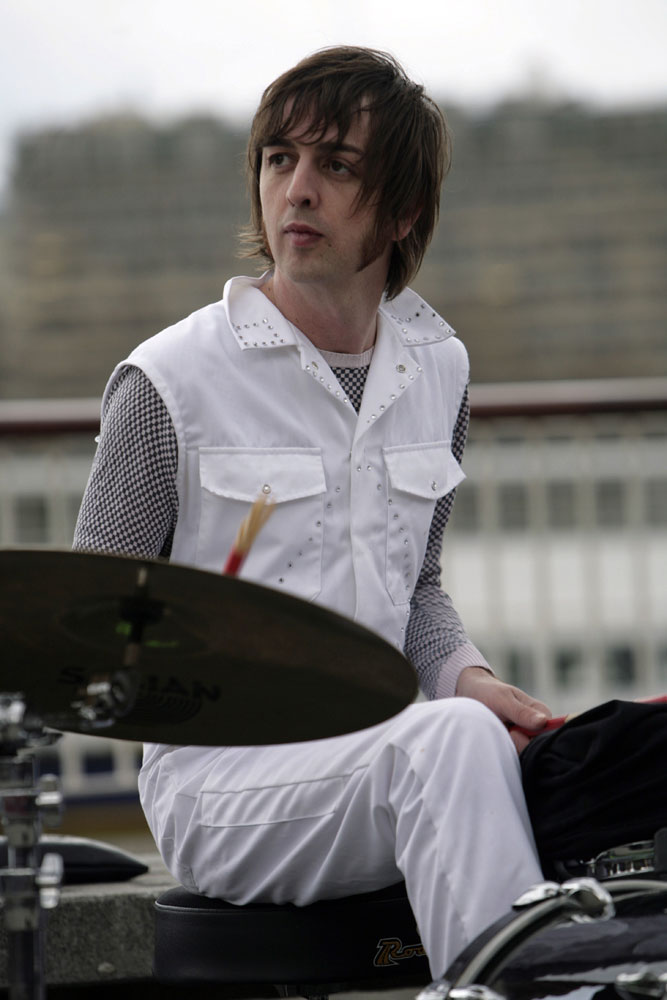 Danny Goffey performs with Supergrass on London's South Bank